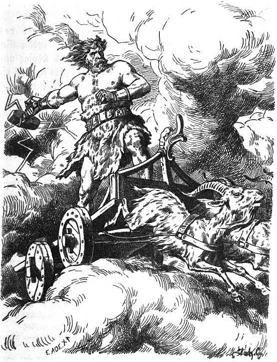 "Thor" (1901) by Johannes Gehrts. Thor crashes through the heavens wielding the lightning-sparking hammer Mjöllnir, the gloves Járngreipr, and the belt Megingjörð. Thor rides his chariot, pulled by the goats Tanngrisnir and Tanngnjóstr.